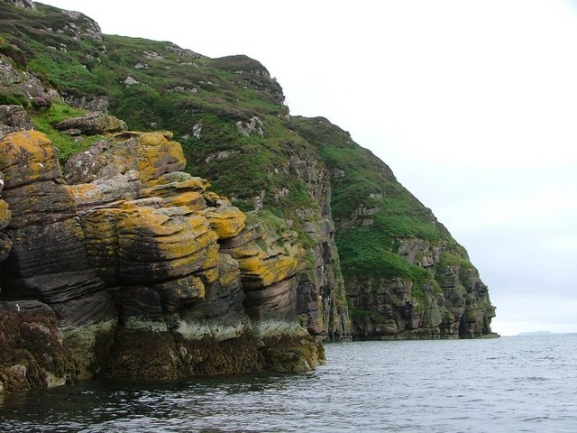 Isle Martin, Northern Coastline - Hebrides, Scotland The northern coast of Isle Martin is comprised entirely of sea cliffs.